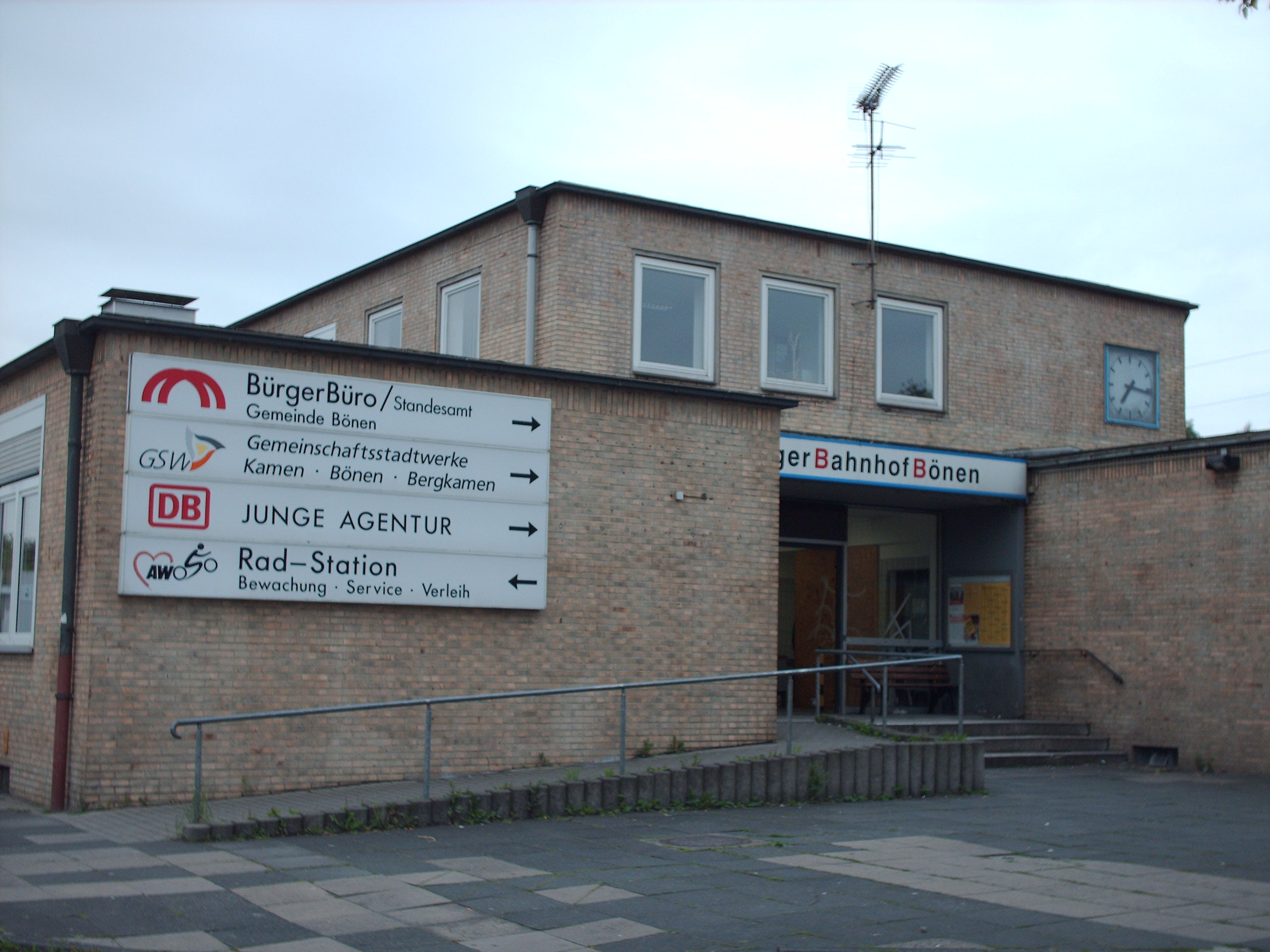 Bönen station, Bönen, Germany check usage